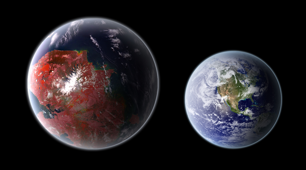 Size comparison Kepler-442b and Earth